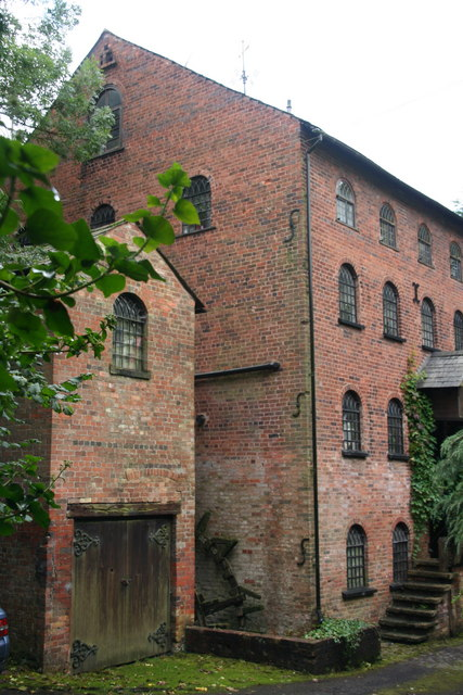 Lutley Mill The mill wheel can be partially seen between the two buildings.